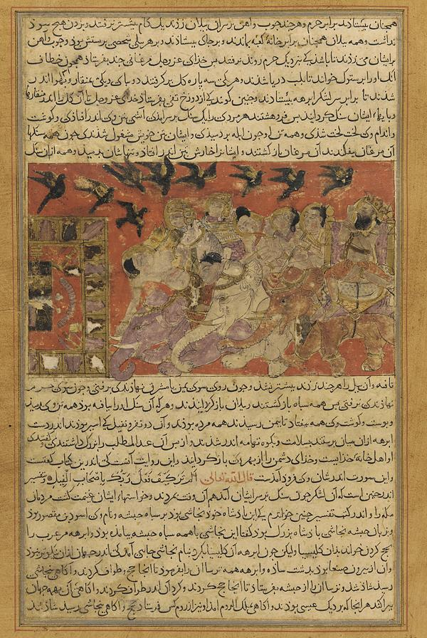 Folio from a Tarikhnama (Book of history) by Balami